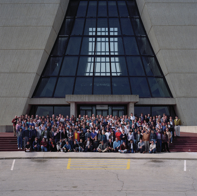 CDF Collaborators Group Photo